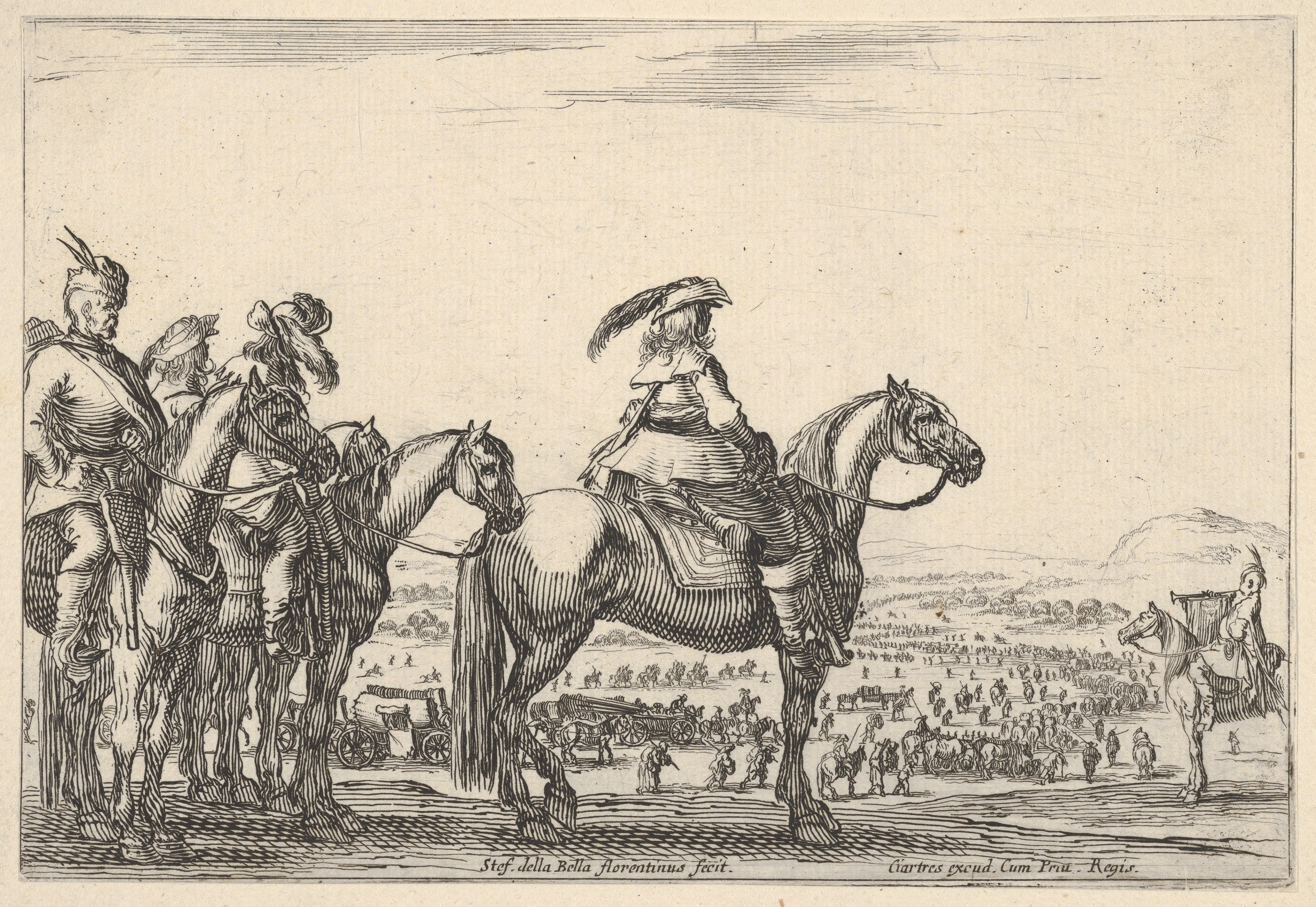 Print; Prints